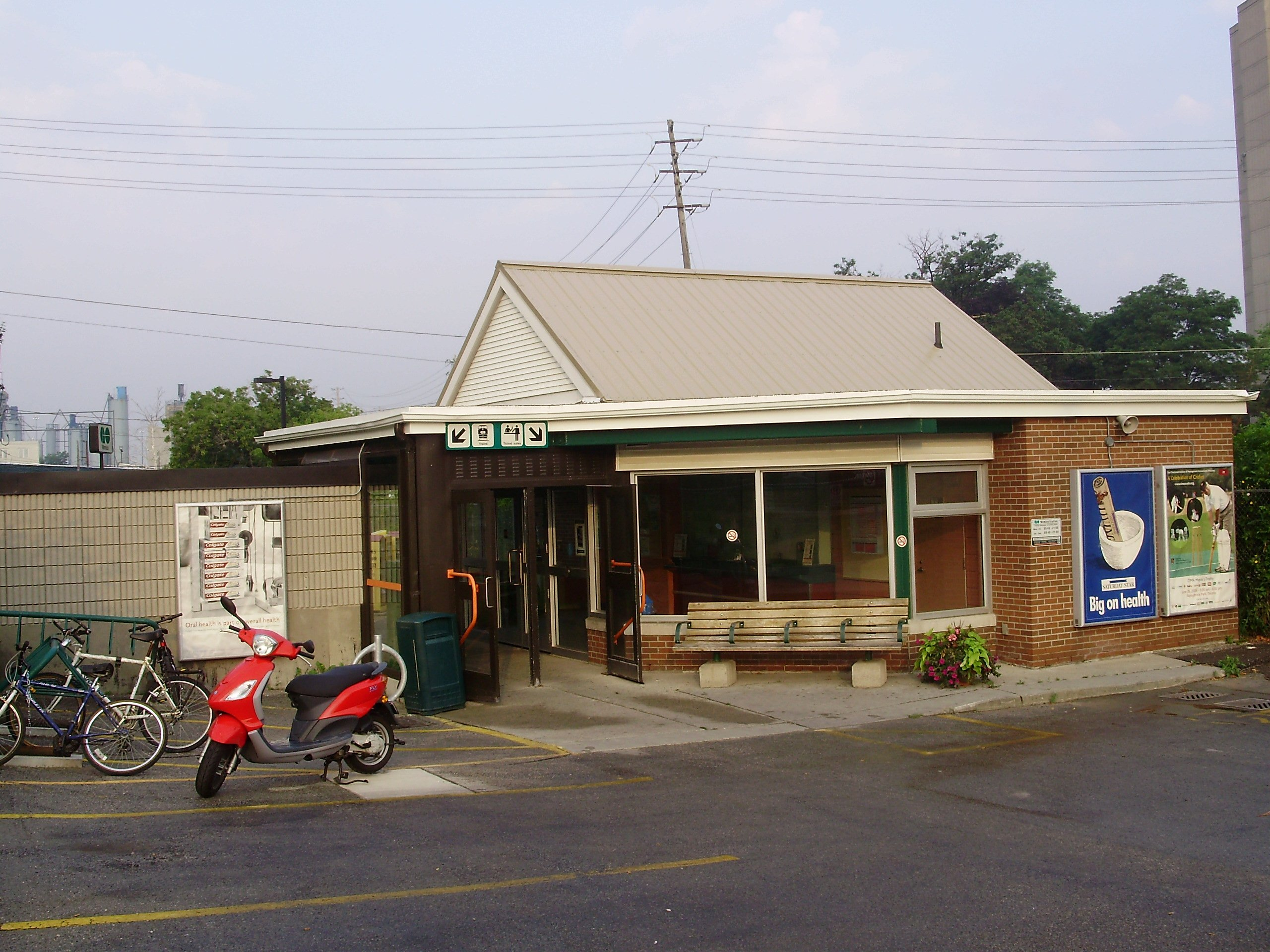 The station building of Mimico GO Station in Etobicoke, Ontario, Canada, photographed looking west from the parking lot.